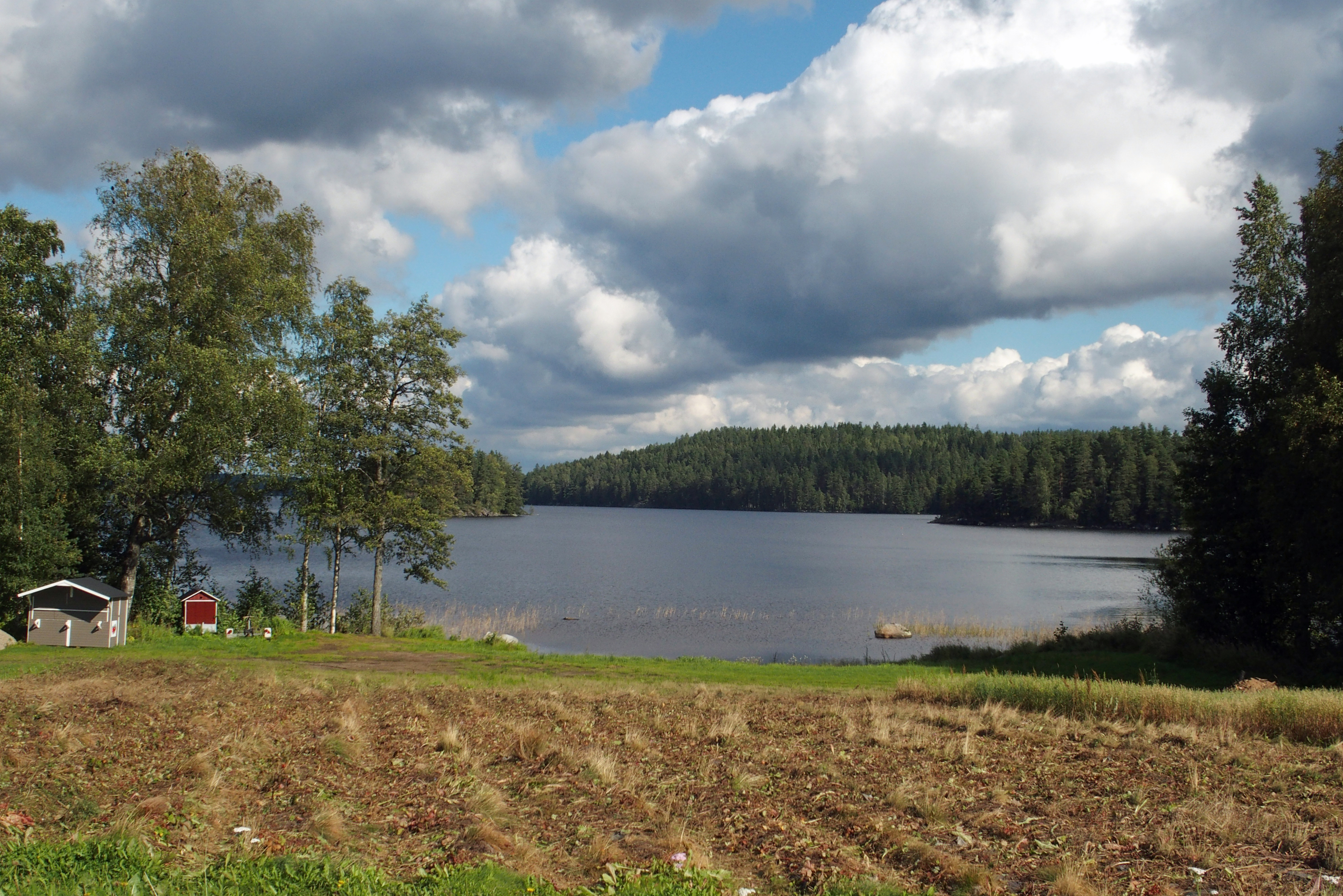 Lake in Vesijako village, Padasjoki Finland